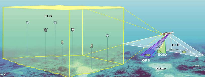 AN_-_AQS-20A_Sonar_and_Electro-optic mine_Identification